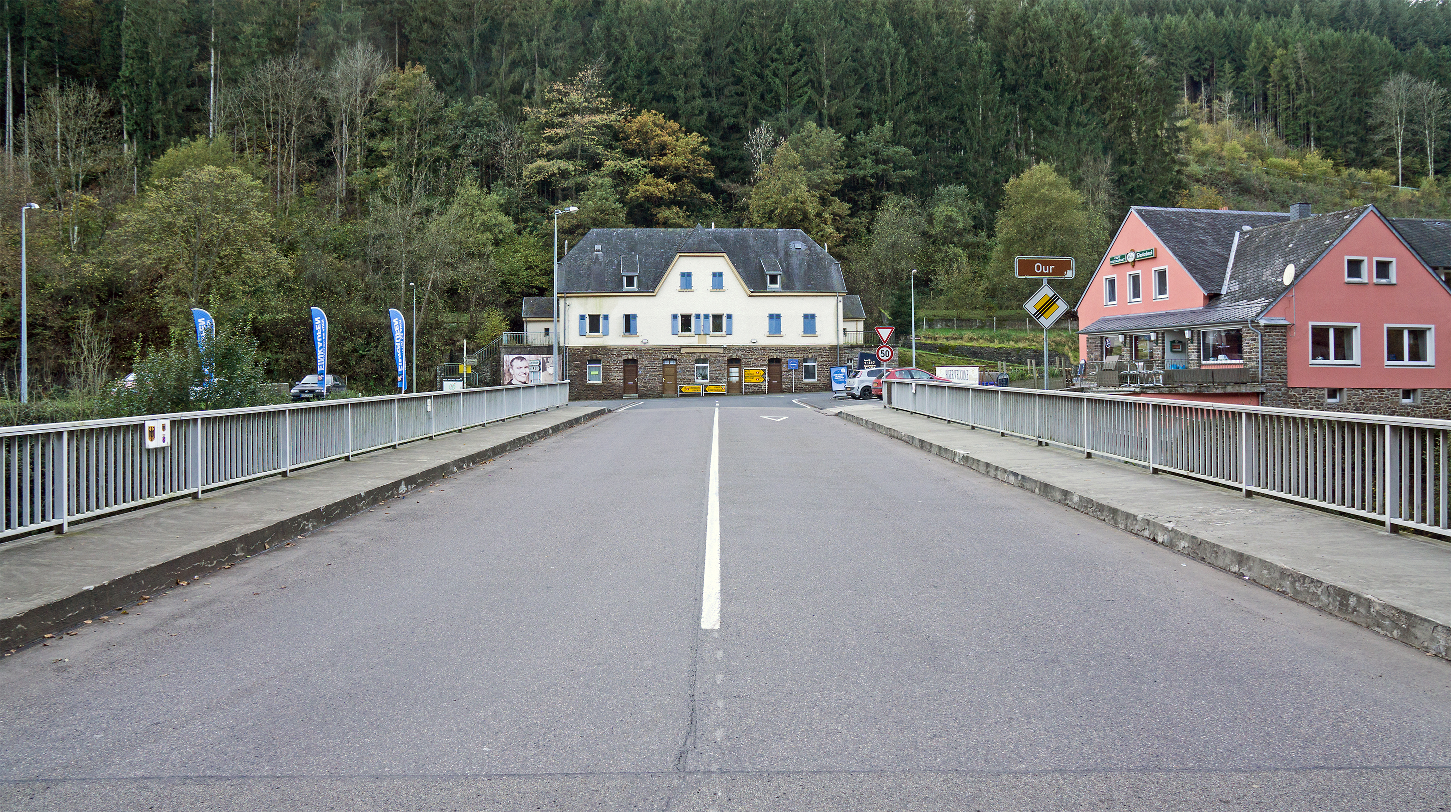 View over the bridge of Dasbourg-Pont to the luxembourgish side of the border